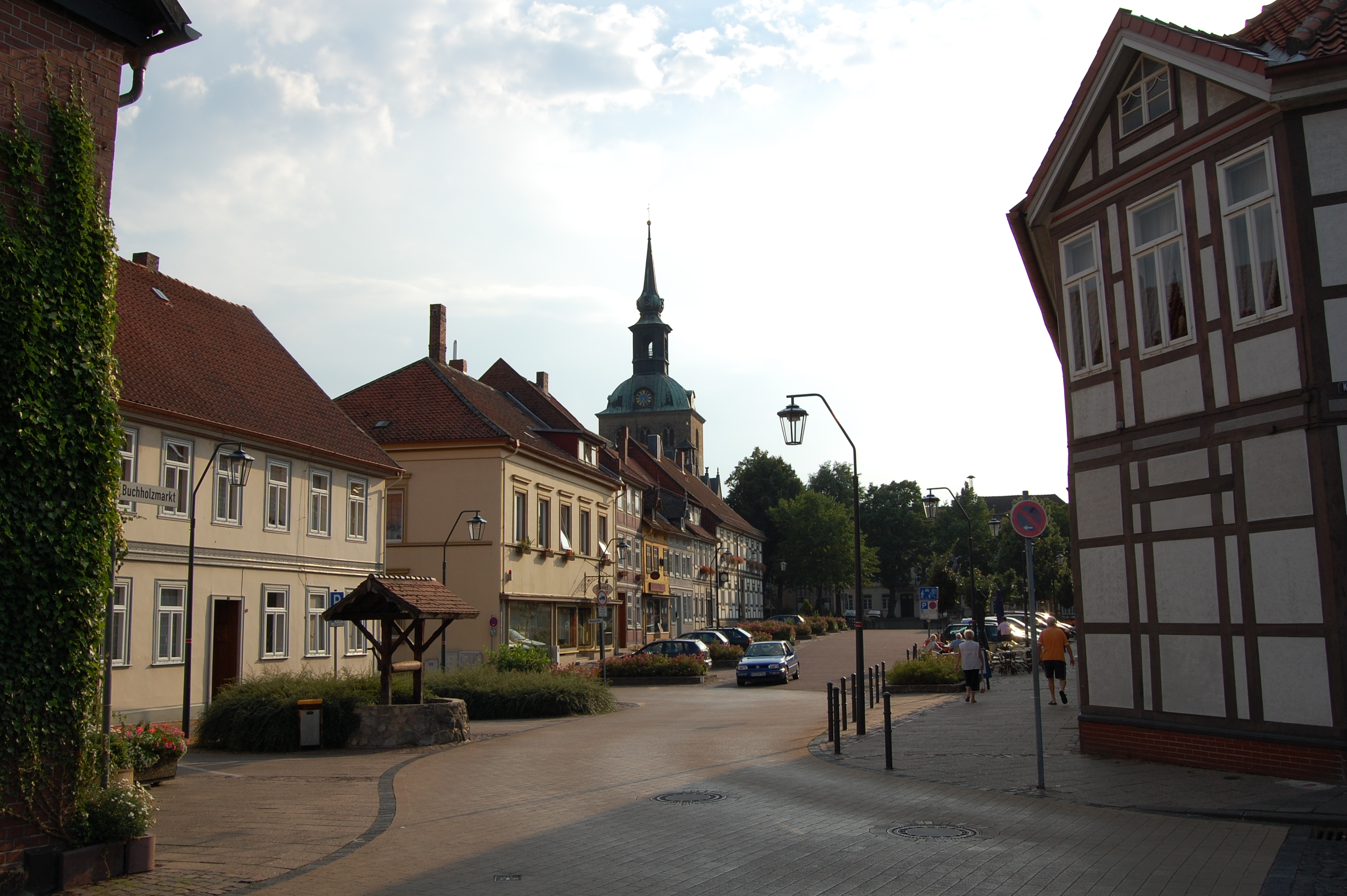 The marketplace "Buchholzmarkt" of the city Bockenem, Lower Saxony, Germany